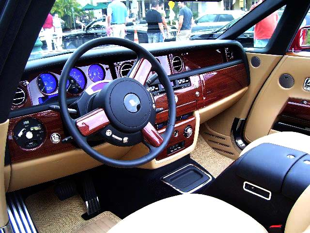 Dashboard and the A-pillar.